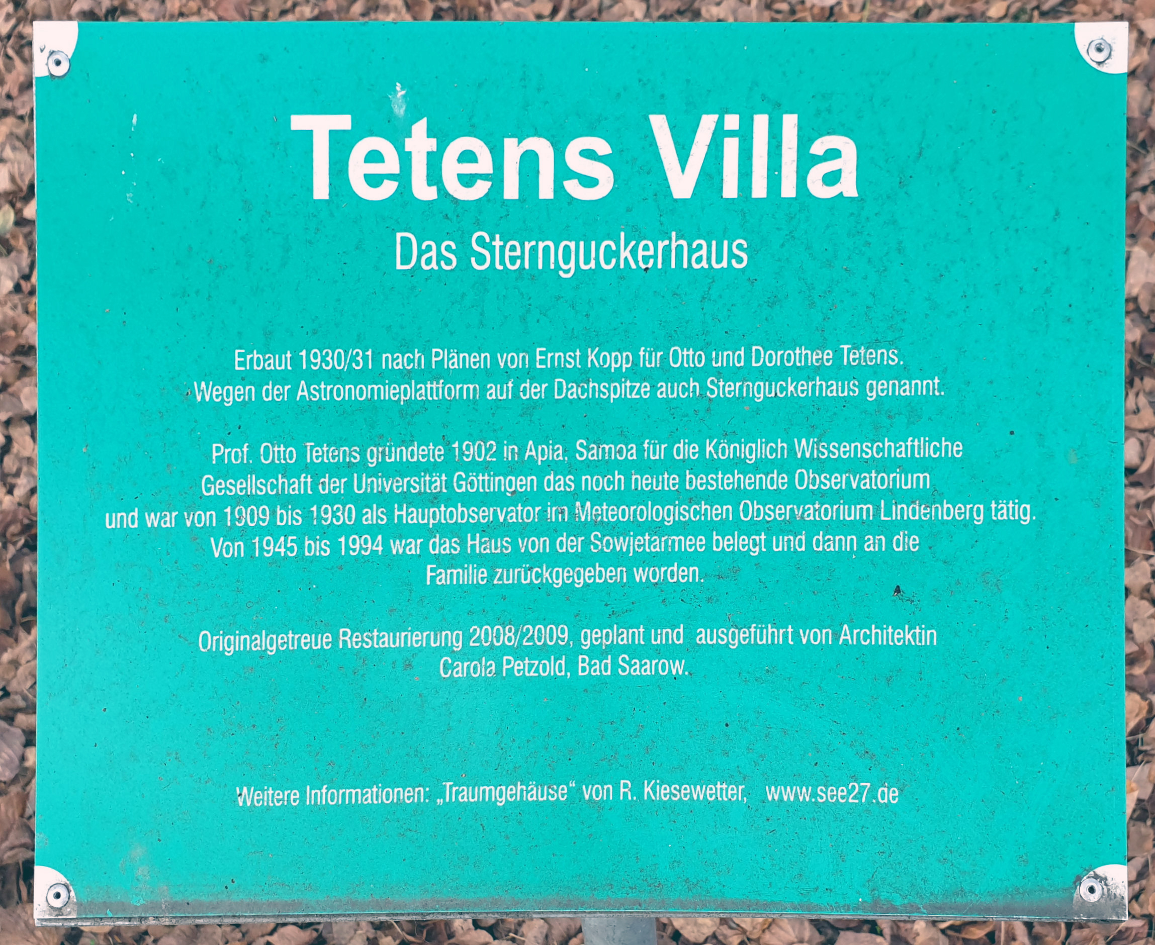 Memorial plaque, Tetens Villa, Seestraße 25, Bad Saarow, Deutschland